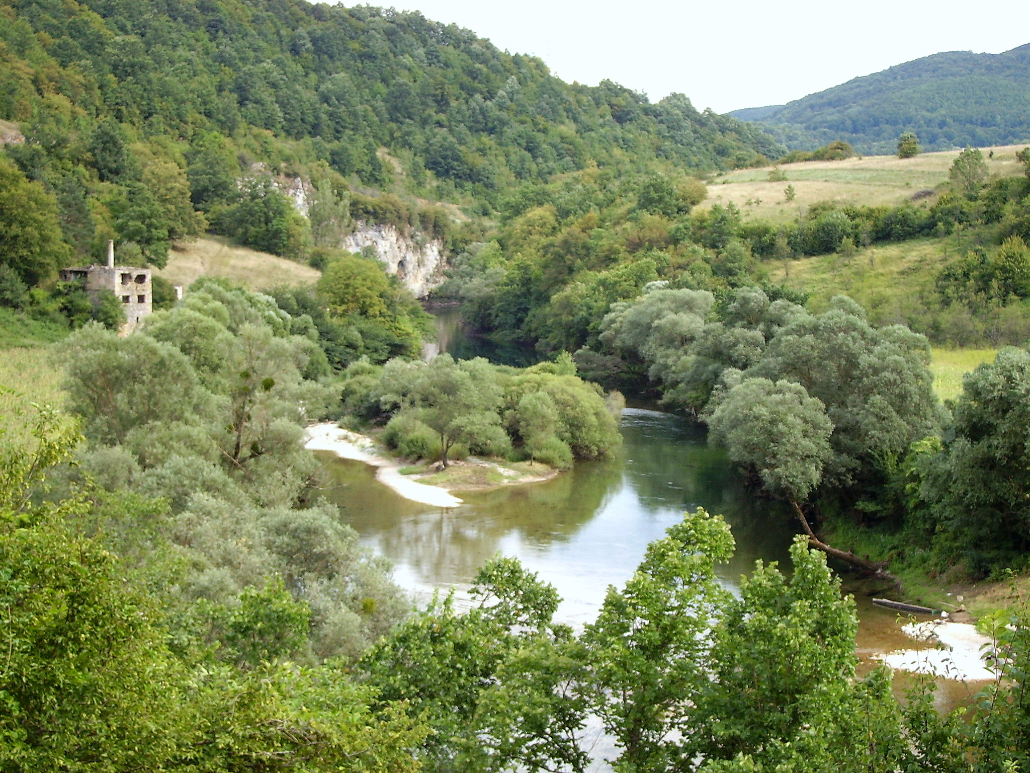 Valley of River Una north of Kulen Vakuf, West Bosnia.